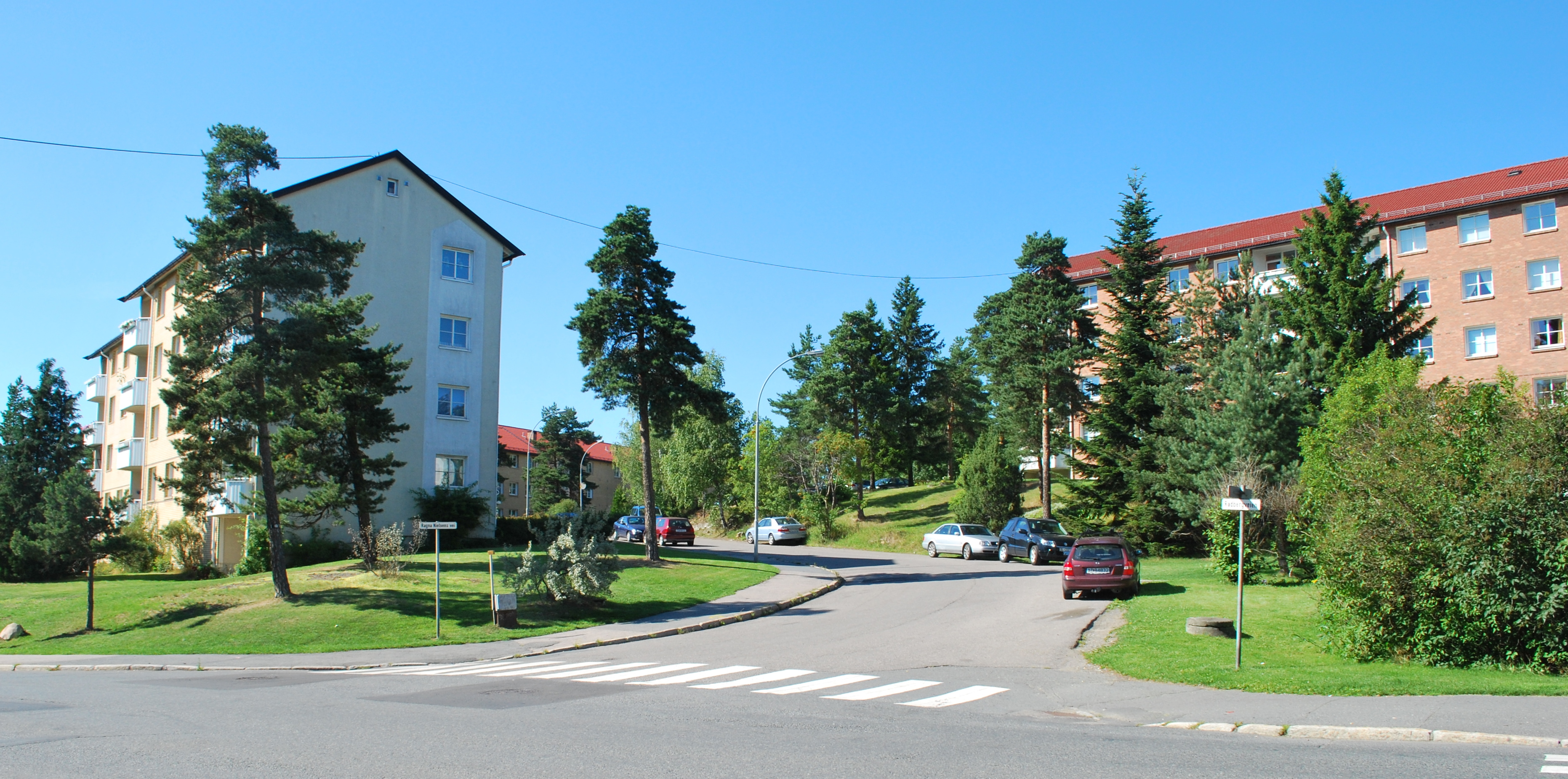 Apartment blocks at Ragna Nielsens vei, Tonsenhagen, Oslo, Norway